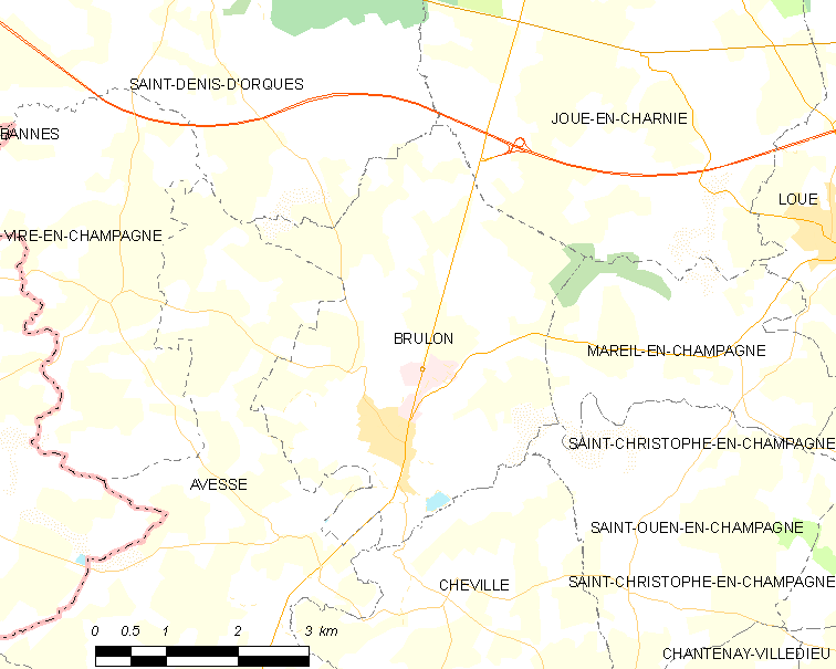 Map of French municipality